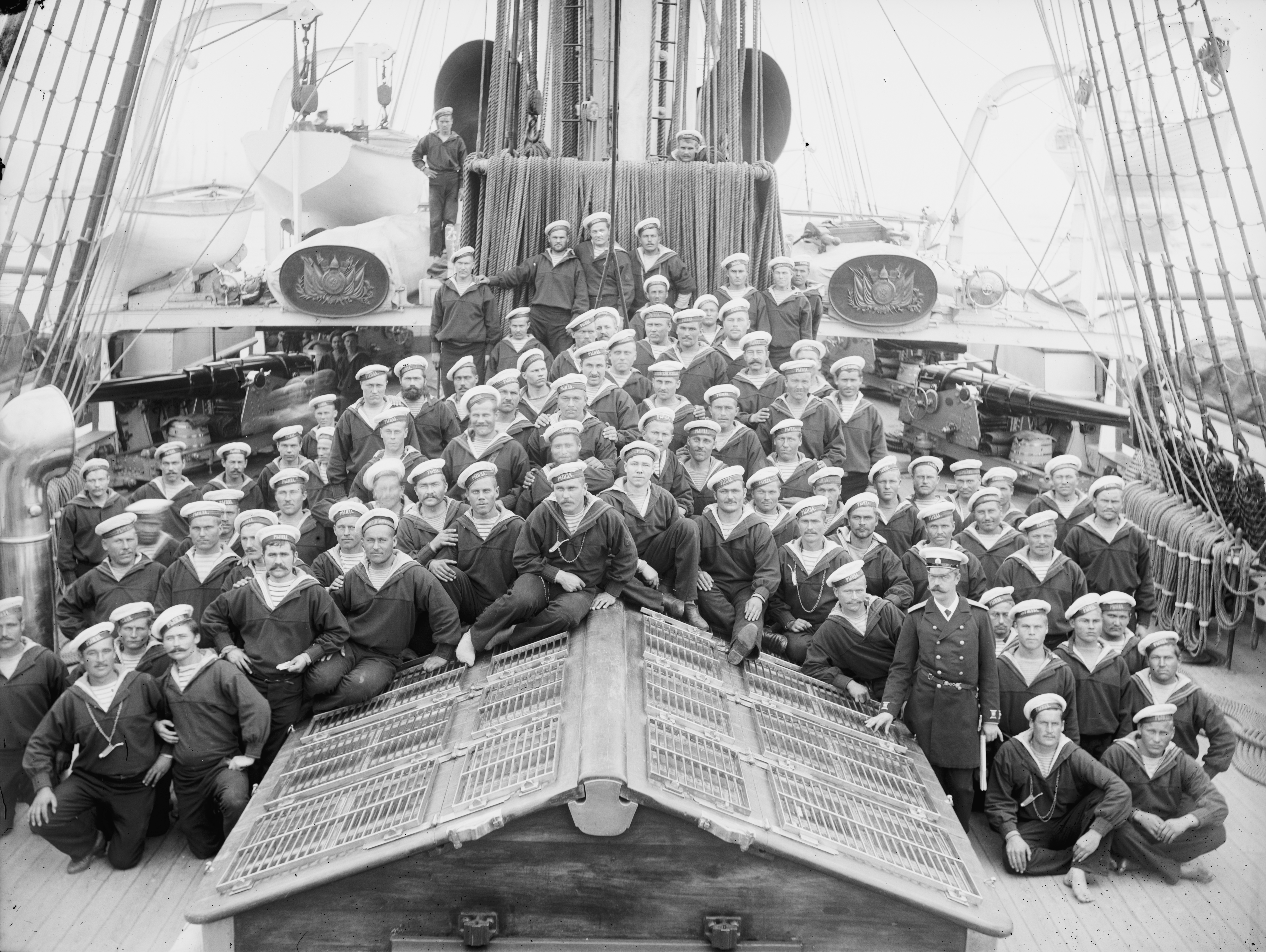 Crew of Russian warship Rynda